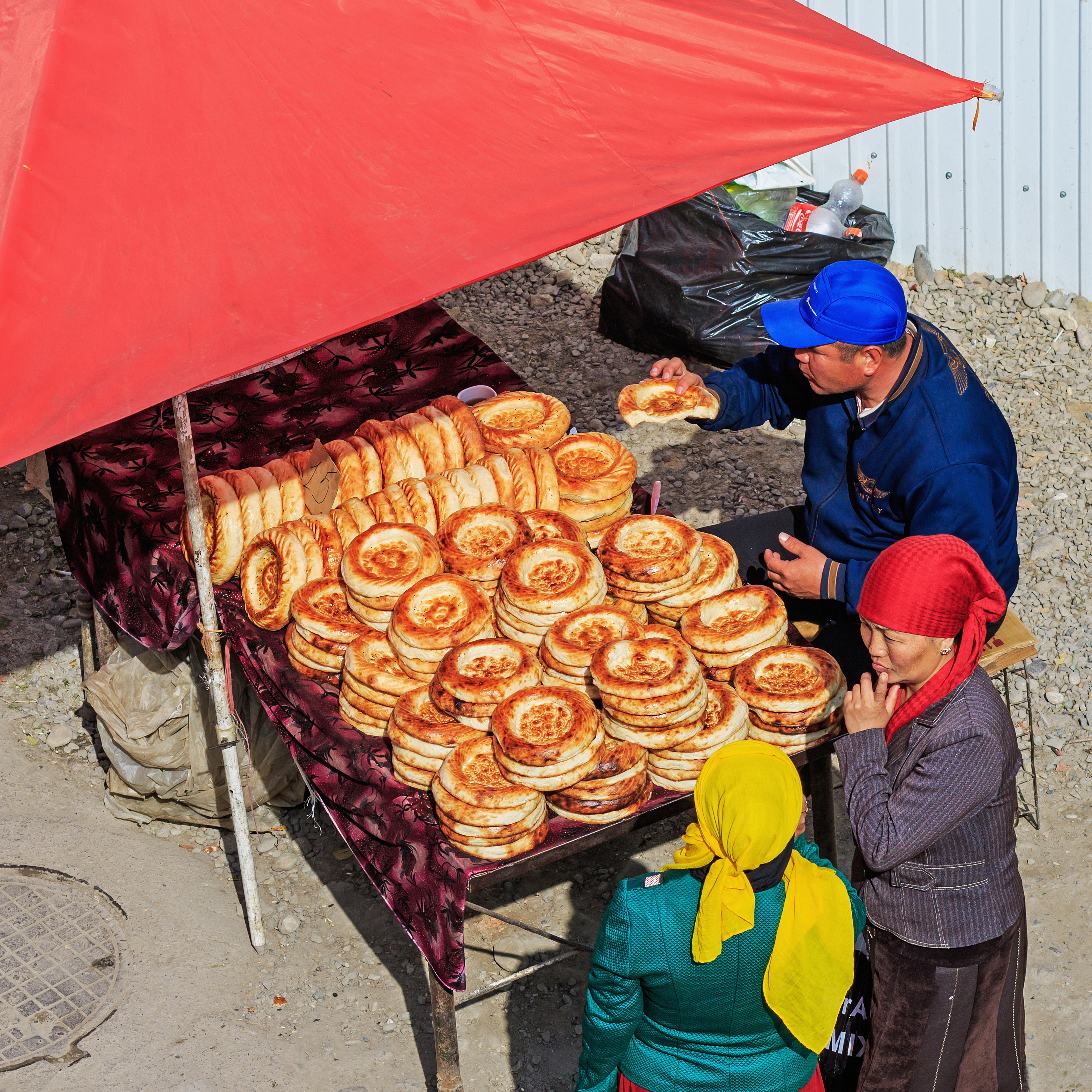 Breads at a market in Osh, Kyrgyzstan